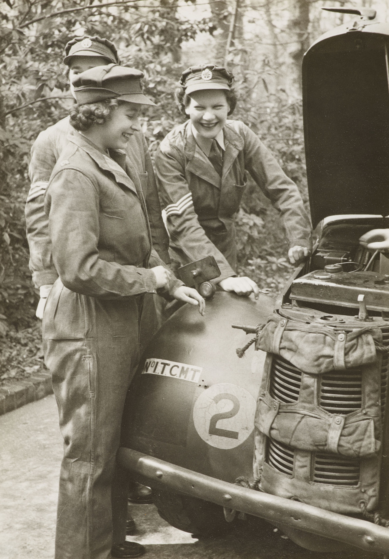 Princess Elizabeth with the ATS learning to drive etc in April 1945 by unknown